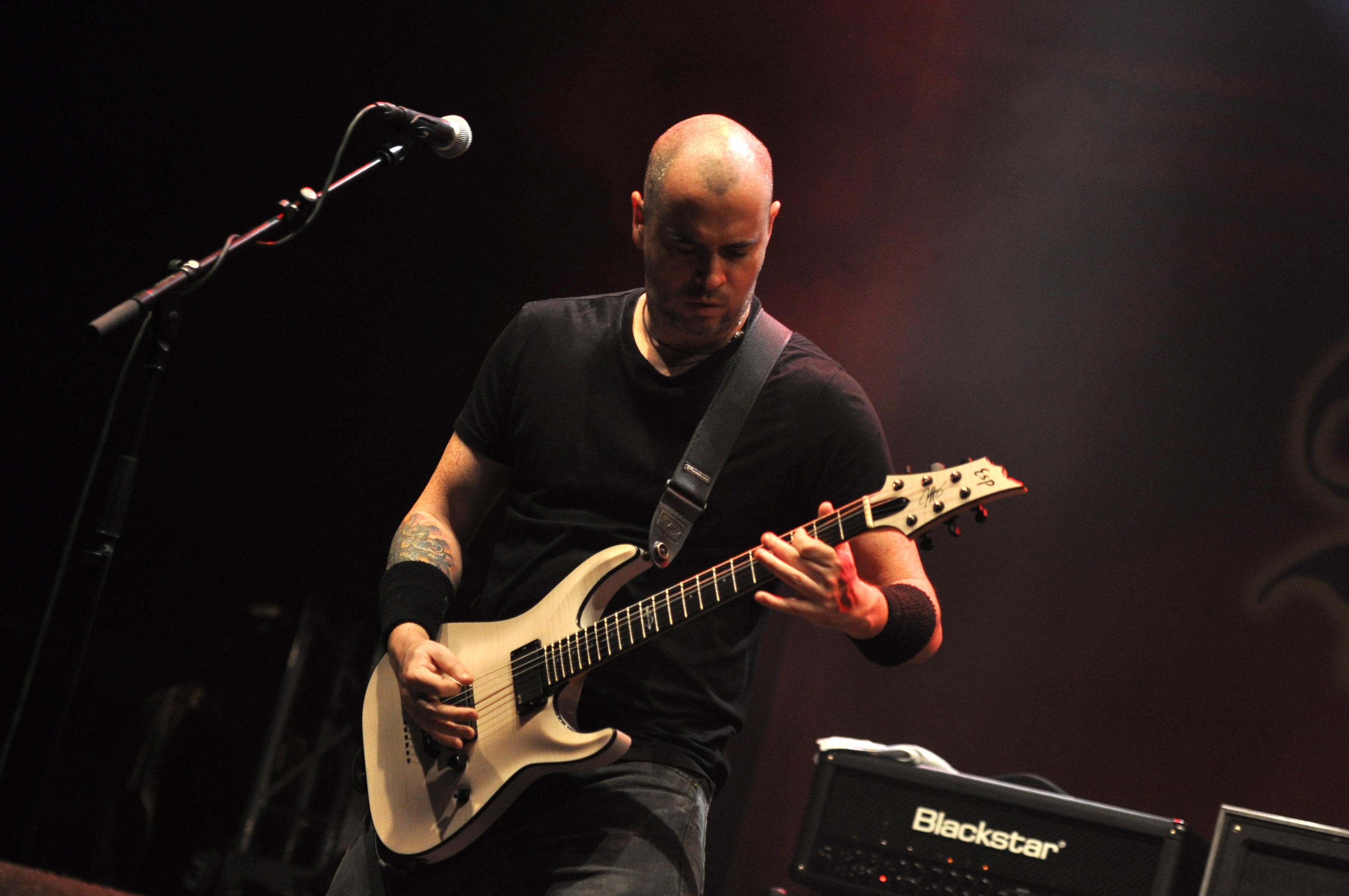 DevilDriver at Paaspop 2014